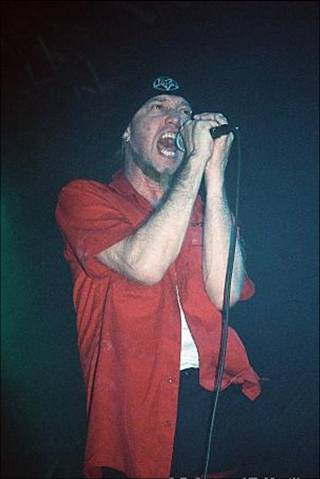 American metal band Nevermore's lead vocals and front man Warrel Dane live, 2005